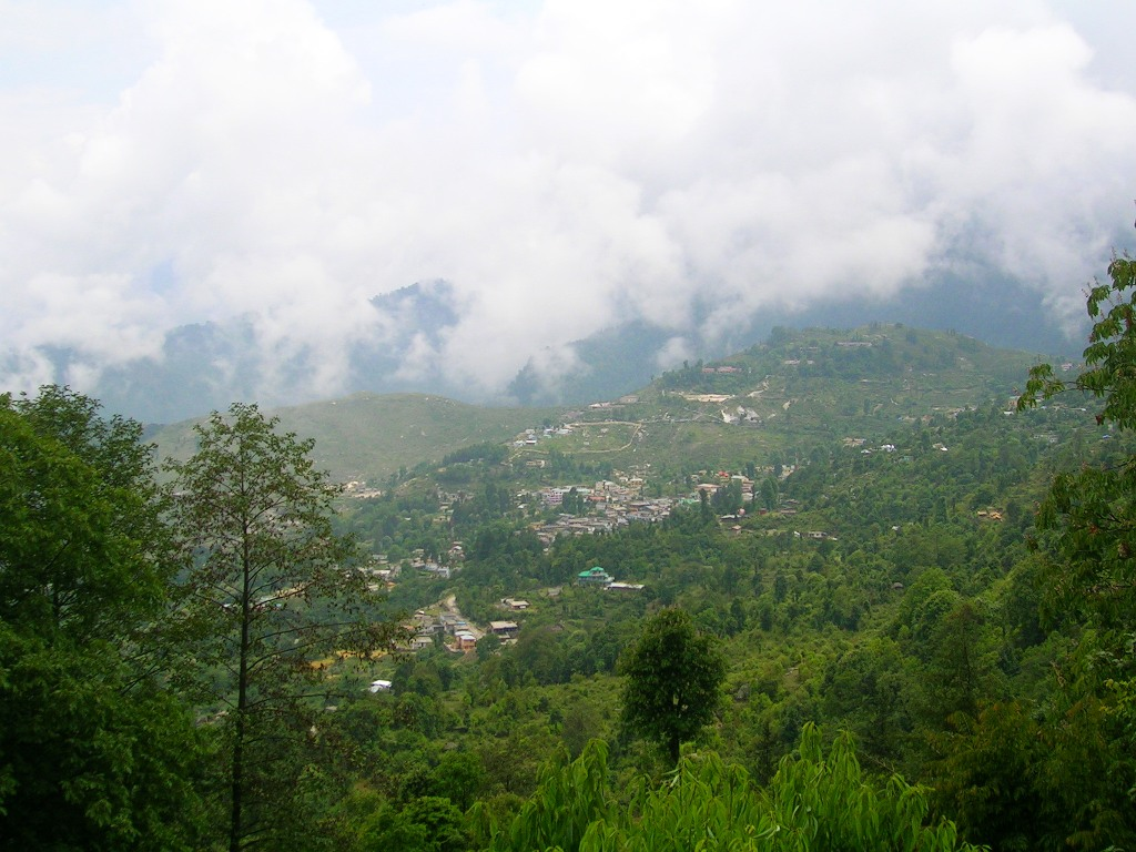 Munsiyari town viewed from Mesar